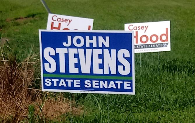 Tennessee state Senator John Stevens campaign sign